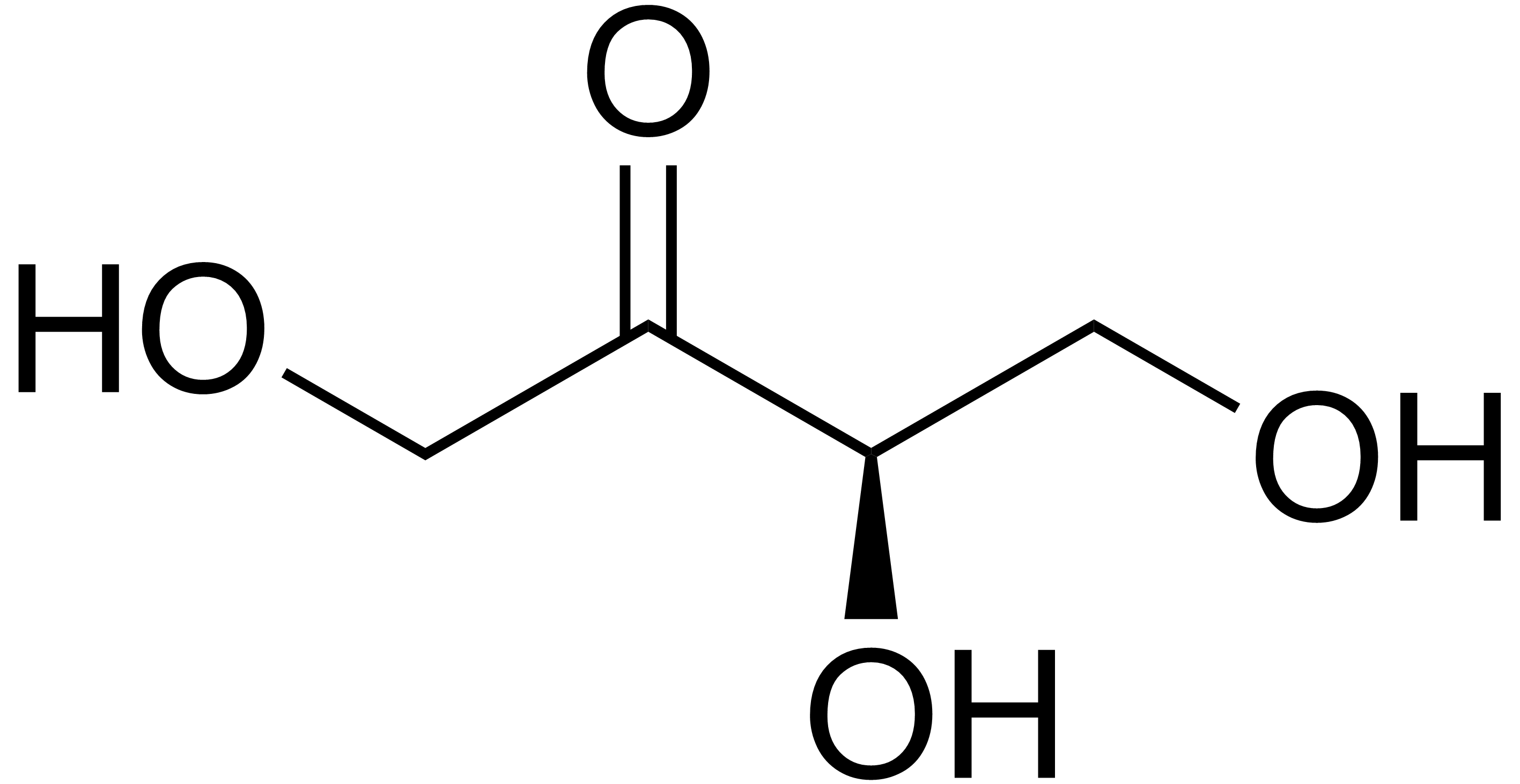 Scheme of Monosaccharide D-Erythrulose